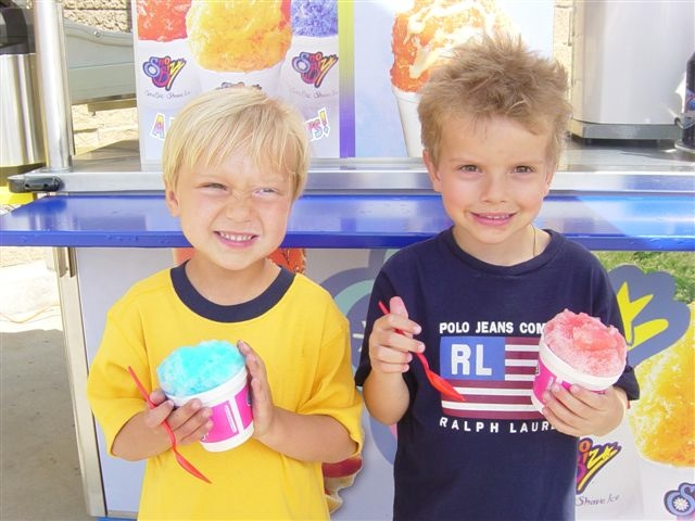 Shave ice is a fluffy treat saturated with flavor.